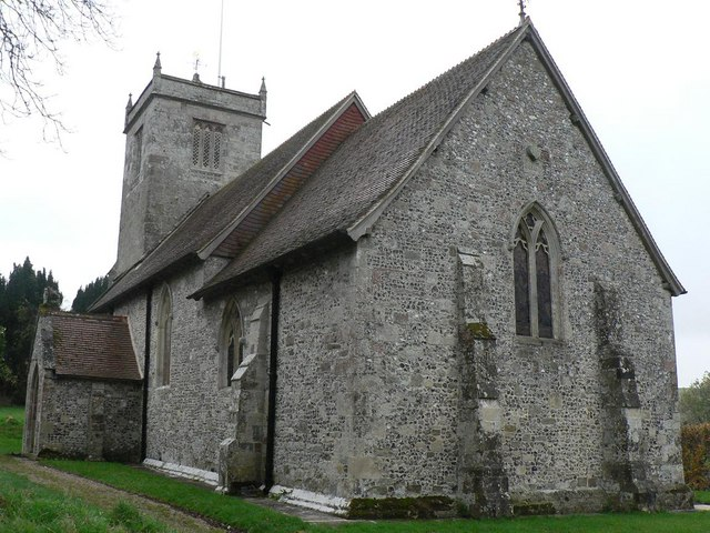 Ebbesbourne Wake: parish church of St. John the Baptist Looking from the southeast corner of the churchyard, along the main path to the door. The tower is 15th-century.